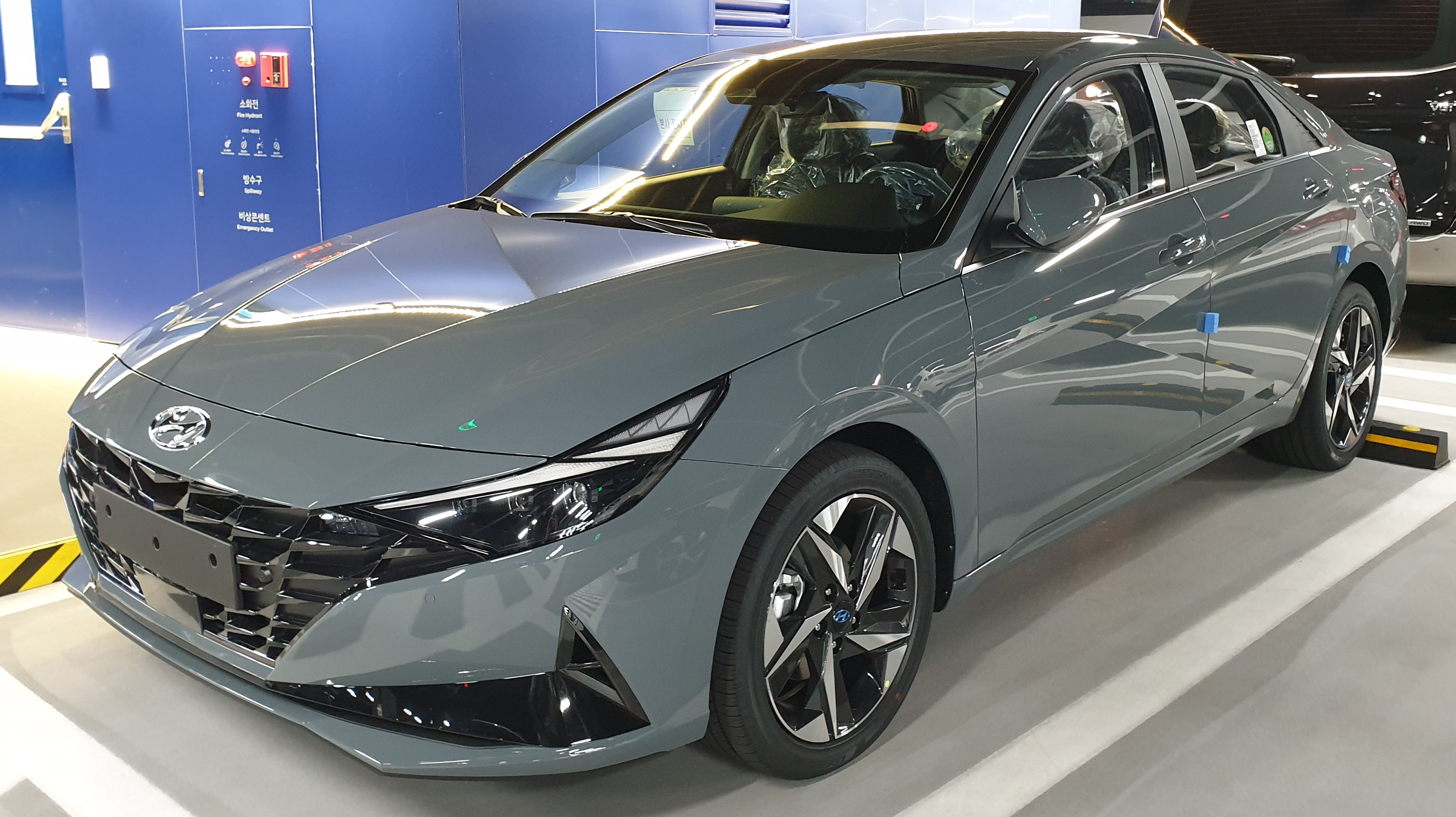 A three quarter picture of a KDM market Hyundai Elantra(Avante)